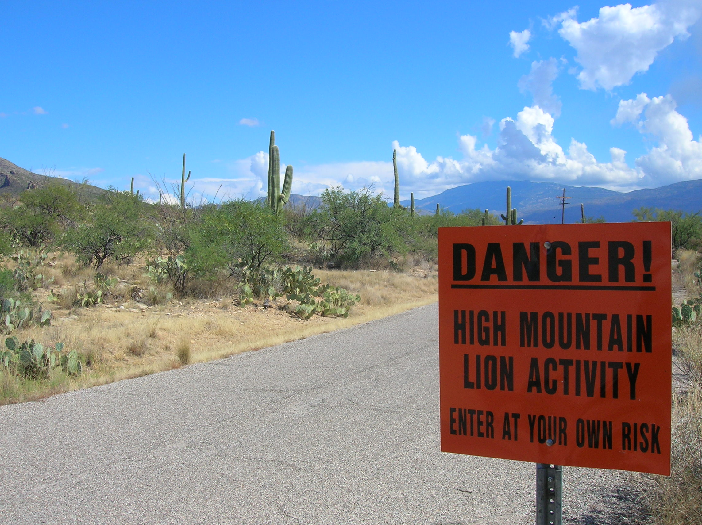 Mountain Lion Activity at the Saguaro National Park near Tucson, Arizona